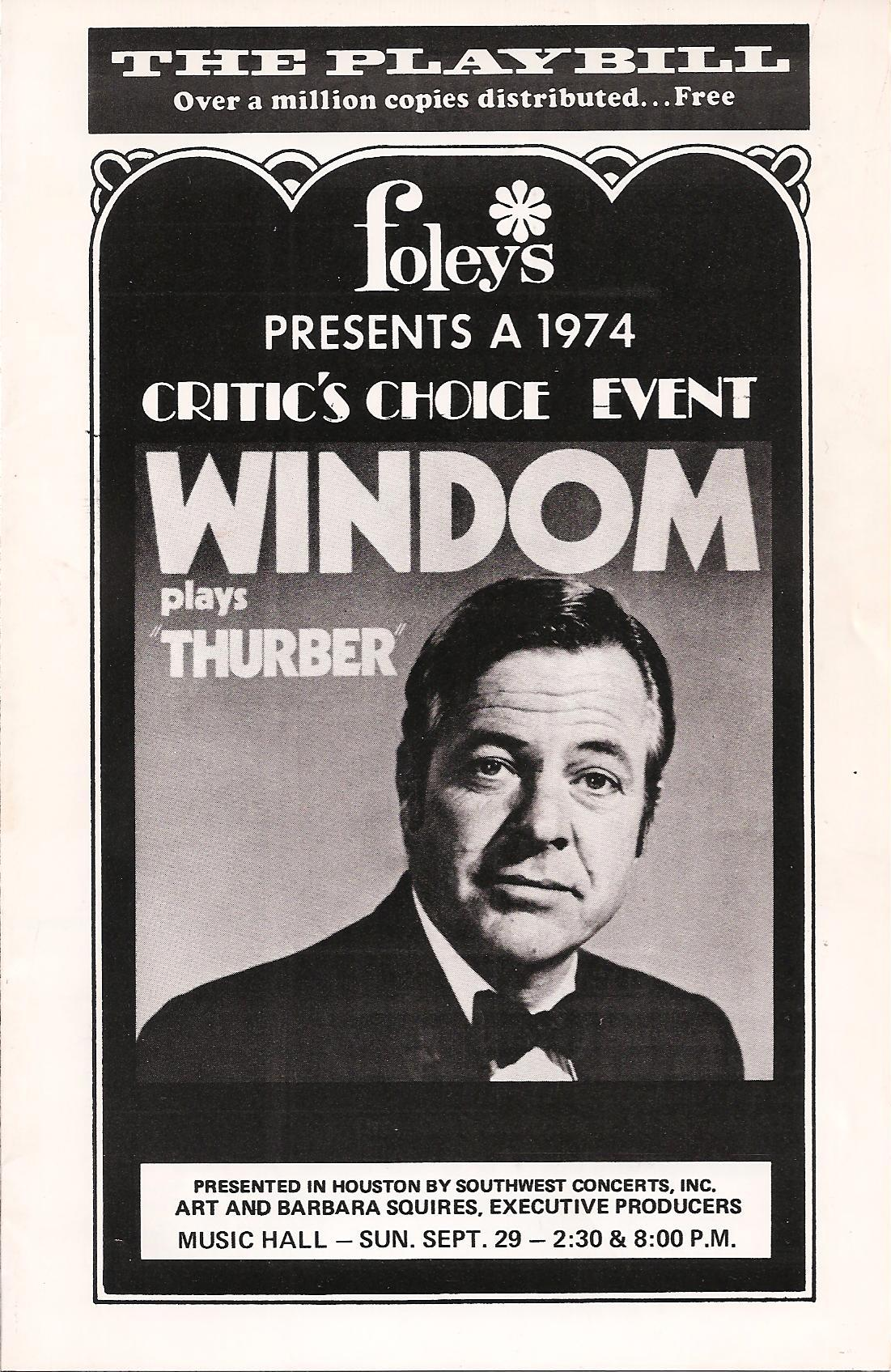 Leaflet advertising a performance by actor William Windom